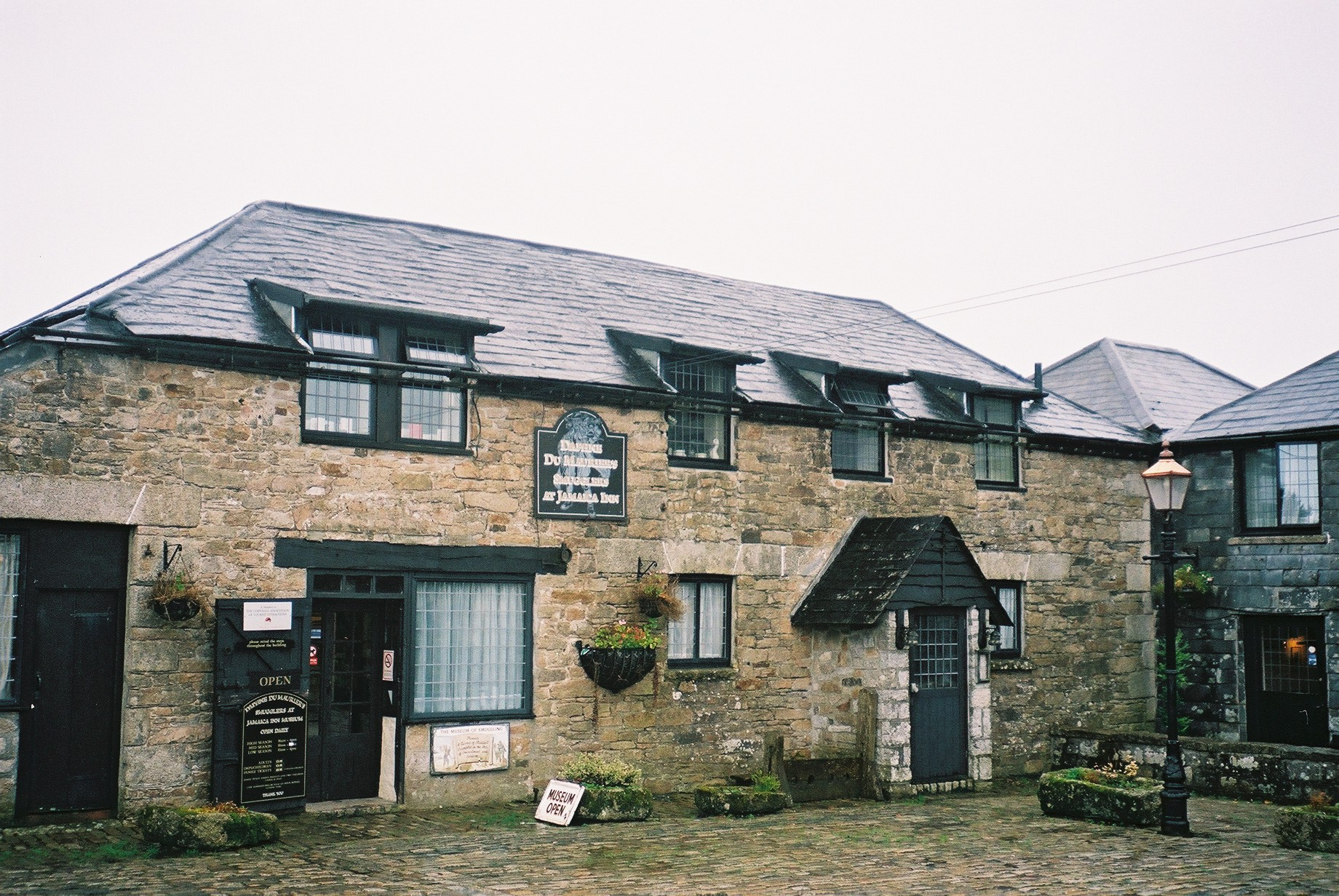 Jamaica Inn, Cornwall